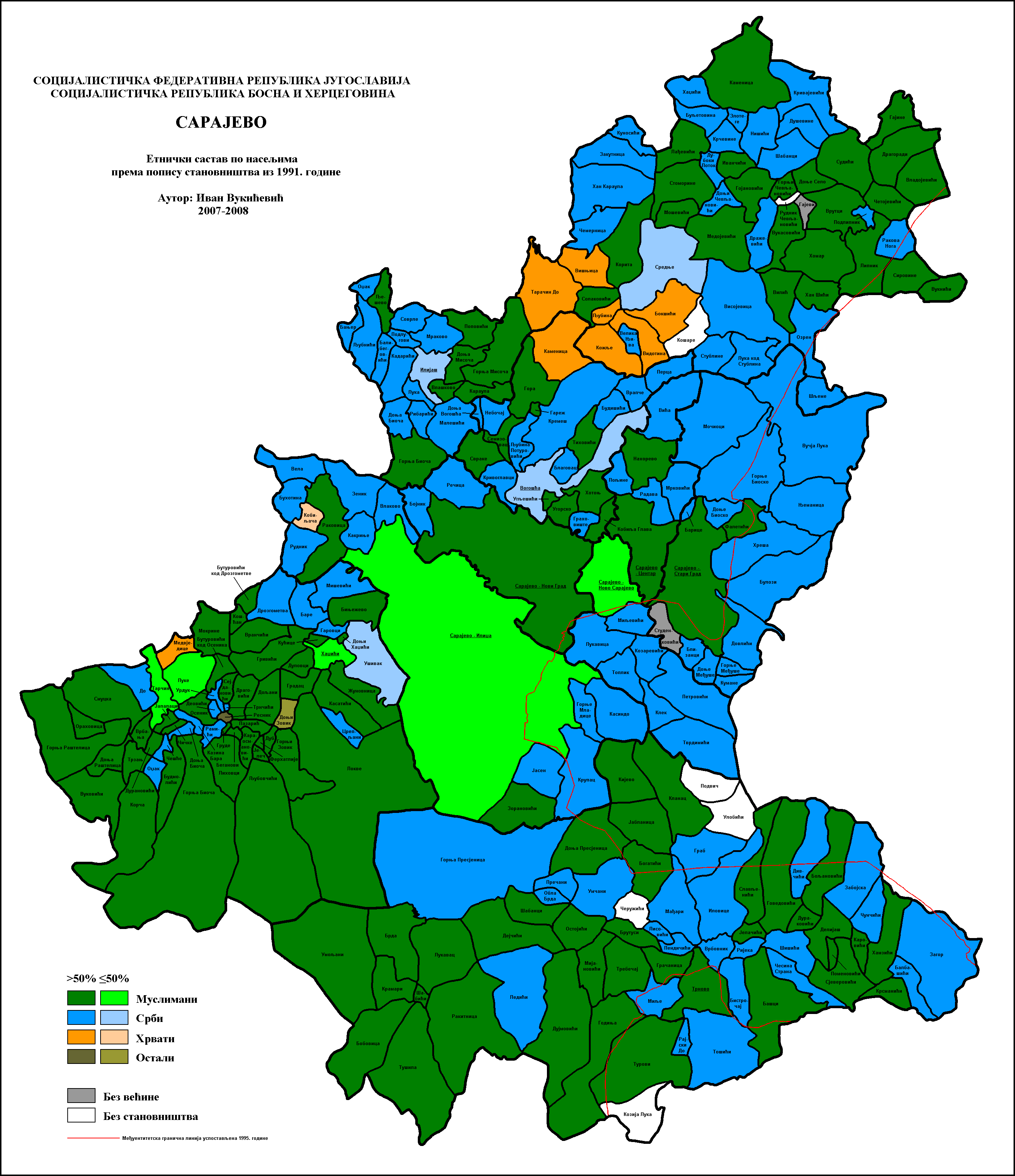 Ethnic structure of Sarajevo by settlements 1991.